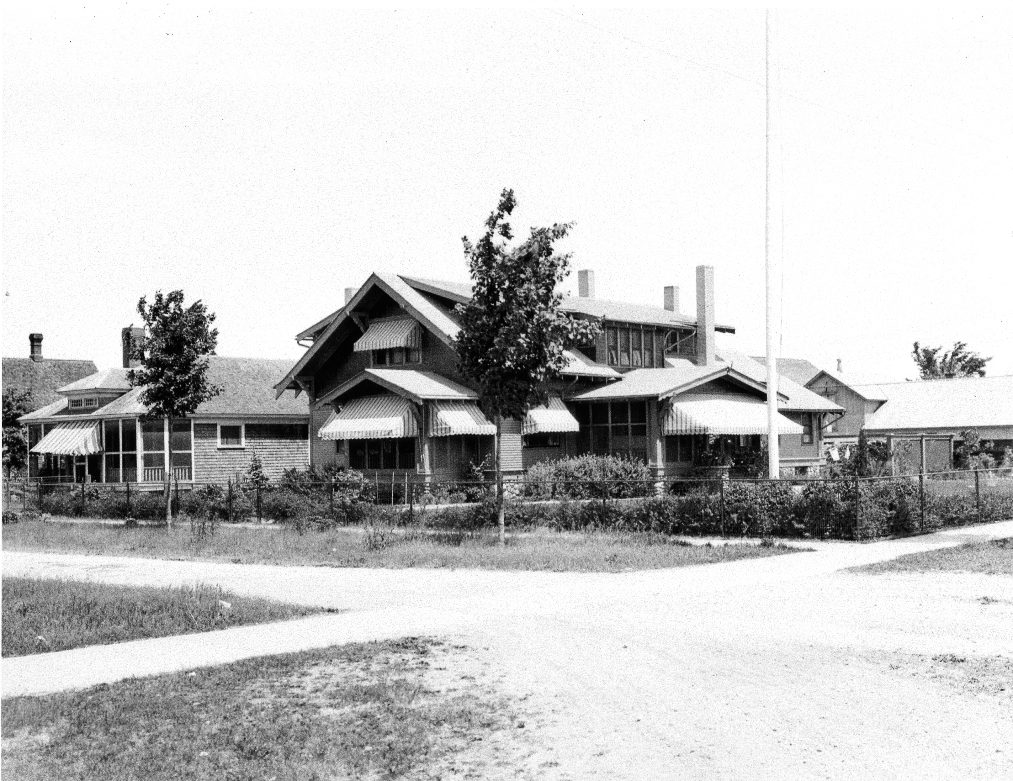 Bradle and Hoeft Houses at Roger's City, Michigan - near Michigan Limestone and Chemical CompanyBradley House